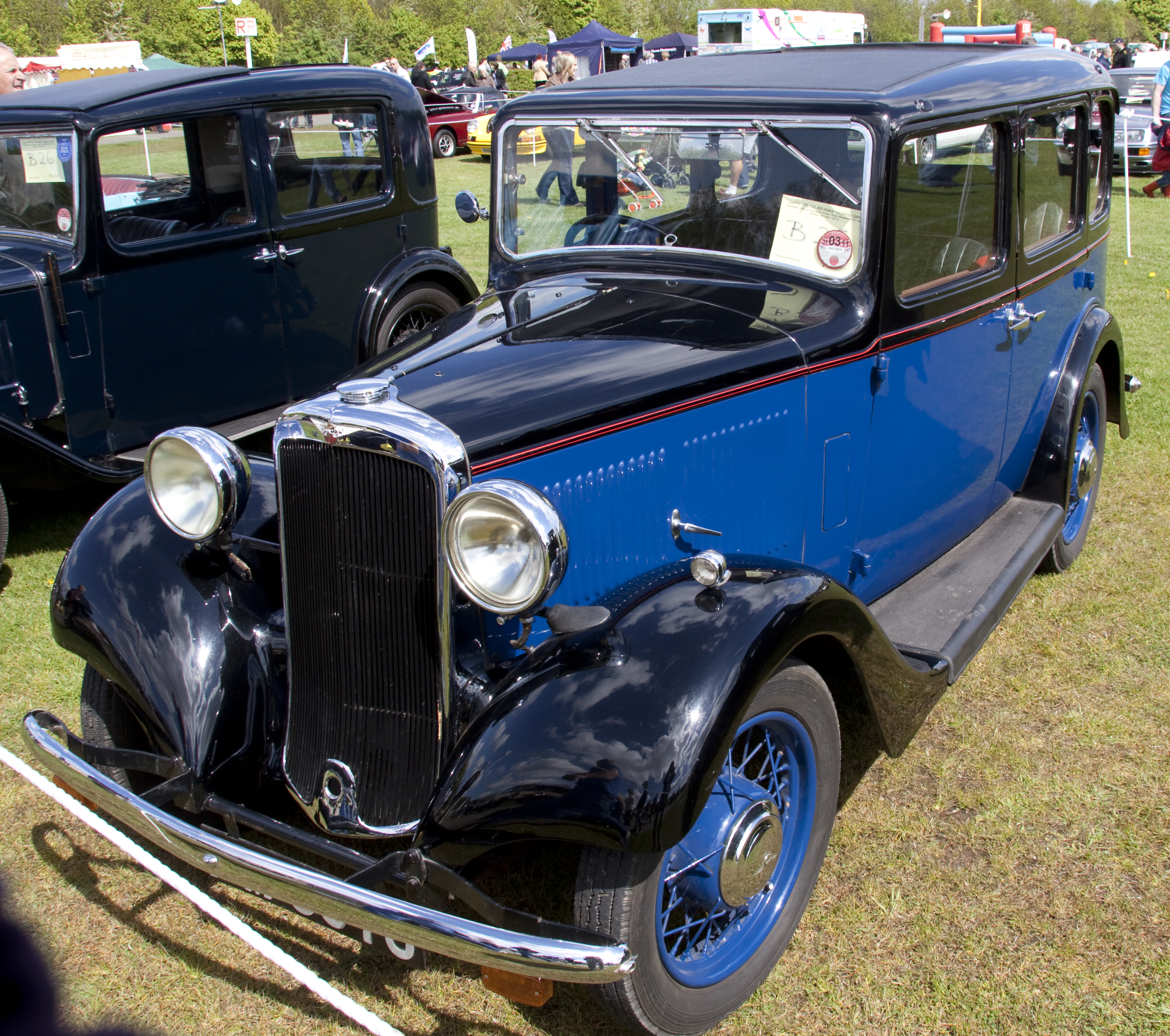 This photo was taken on May 9, 2010 in Lyng, West Bromwich, England, GB, using a Canon EOS 50D